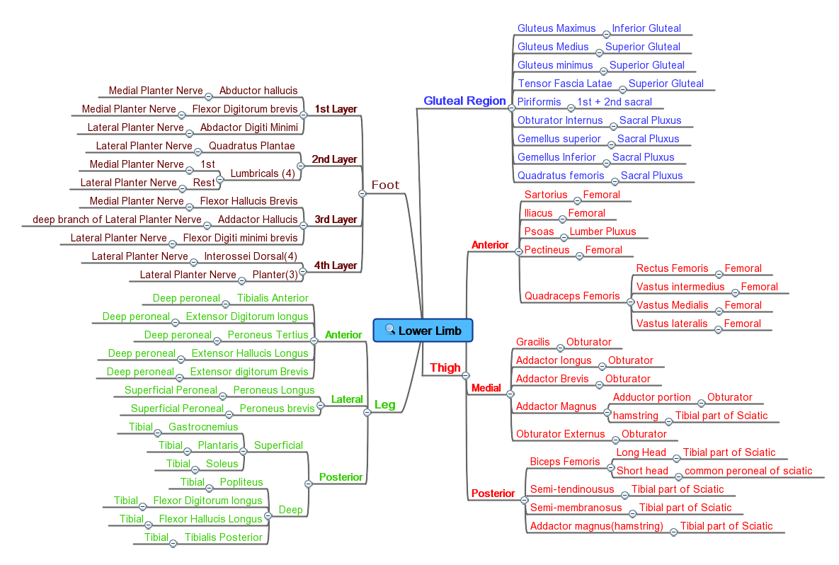 Lower Limb Muscle innervation Corrected, to requst a mind map please see my page on wikipedia Madhero88